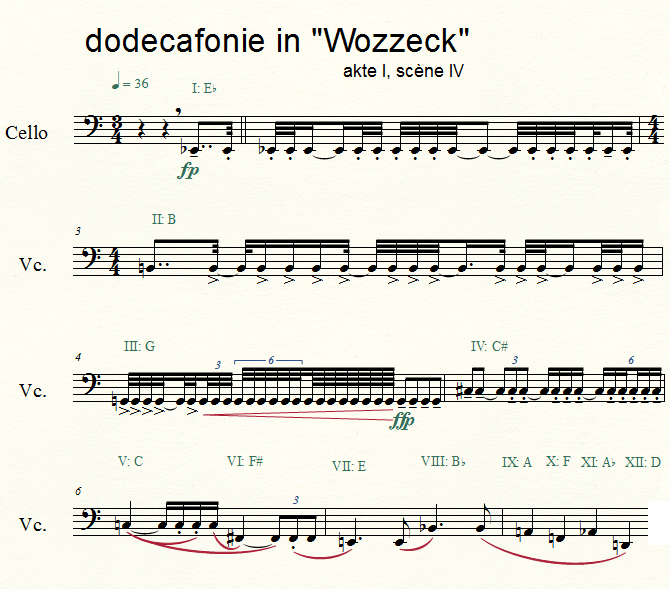 dodecaphony